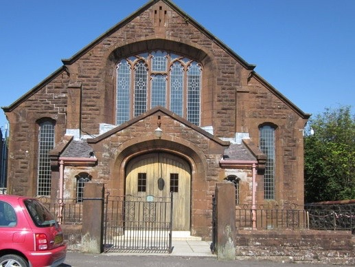 Front entrance of Maybole Baptist Church, Carrick Street, Maybole, Ayrshire, Scotland